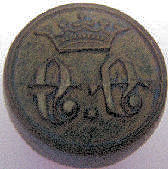 Sealing wax stamp of Fedor Saltykov